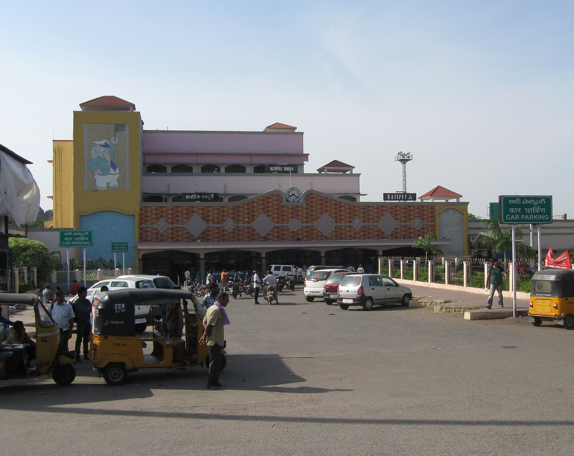 A view of the main entrance of Kazipet Railway Station